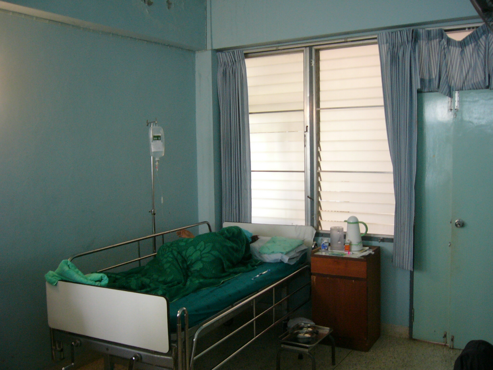 Sickbed in a single room with semi-luxury standard at Na Wa Public Hospital, Nakhon Phanom Province, Northeastern Thailand.